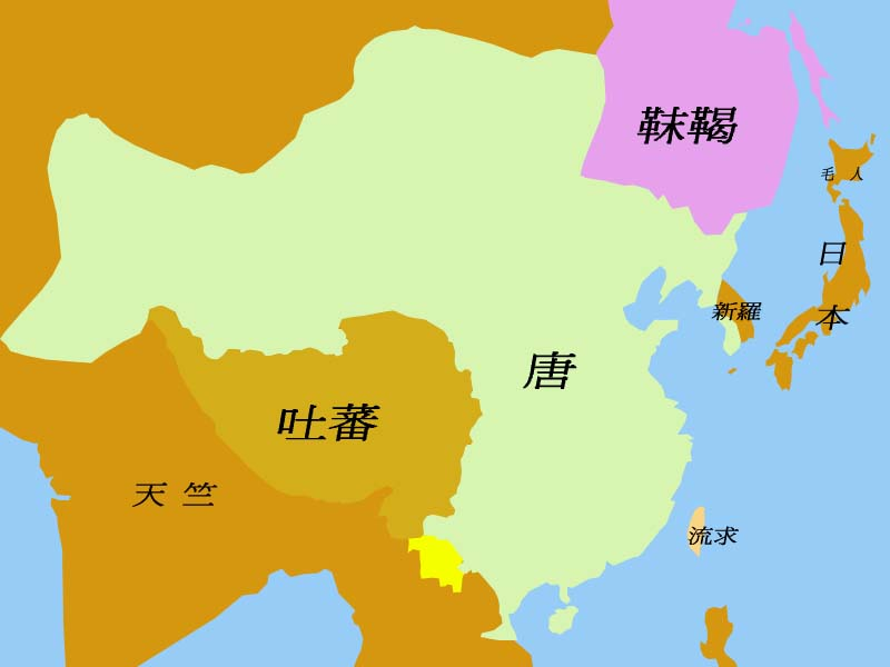 TangDynasty